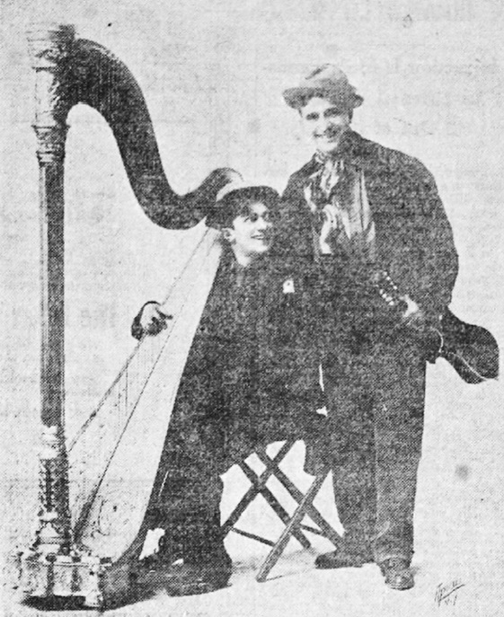 Performers George Lyons (harp) and Bob Yosco (mandolin), from the Salt Lake Tribune, 28 January 1914. The two labeled themselves "The Harpist and the Singer."